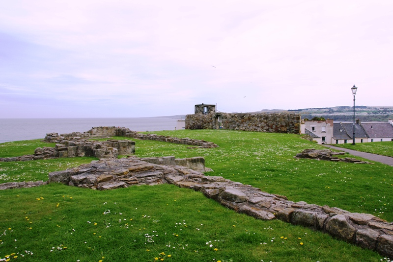 St Mary's Church, Kirkheugh, St Andrews, Fife, Scotland.